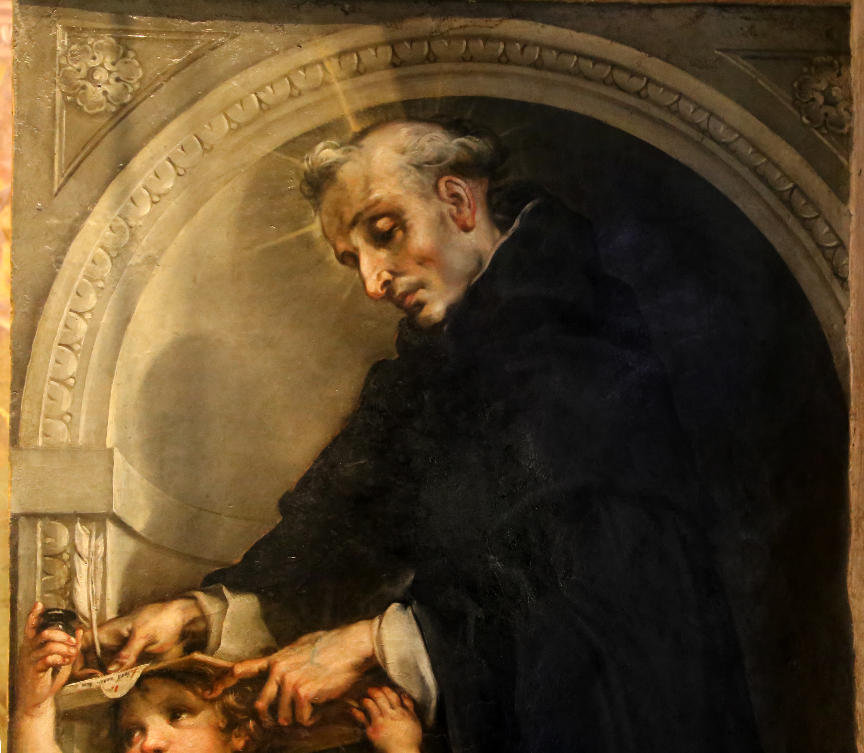 Life of Catherine of Siena and Saints (Francesco Vanni)